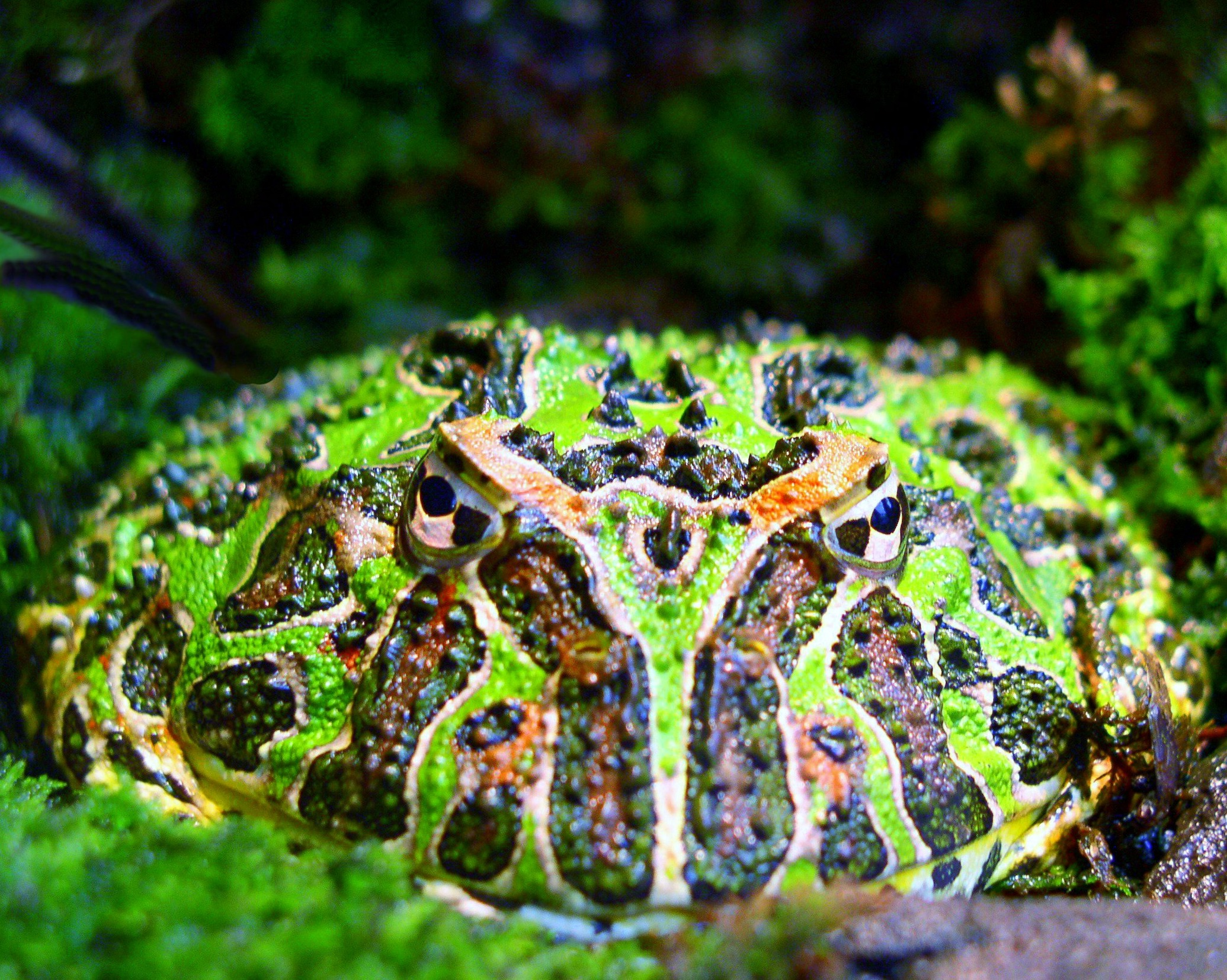 An Argentine horned frog (Ceratophrys ornata) in the Baltimore National Aquarium, USA